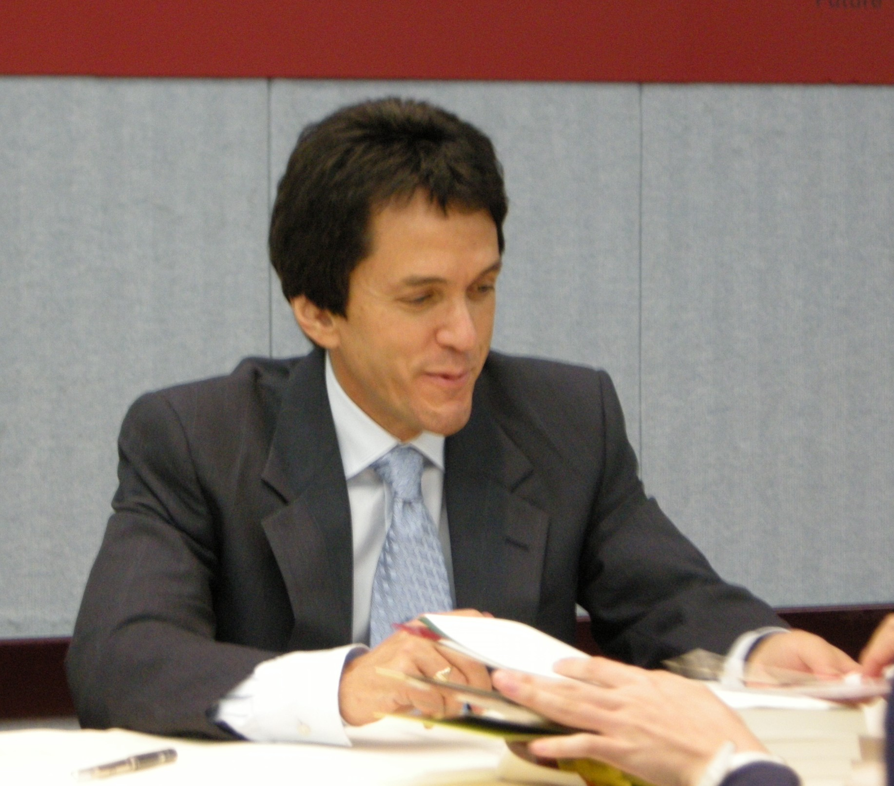 Mitch Albom was autographing for his fans after his lecture in Taipei.